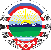 Agin-Buyat Autonomous Region Arms